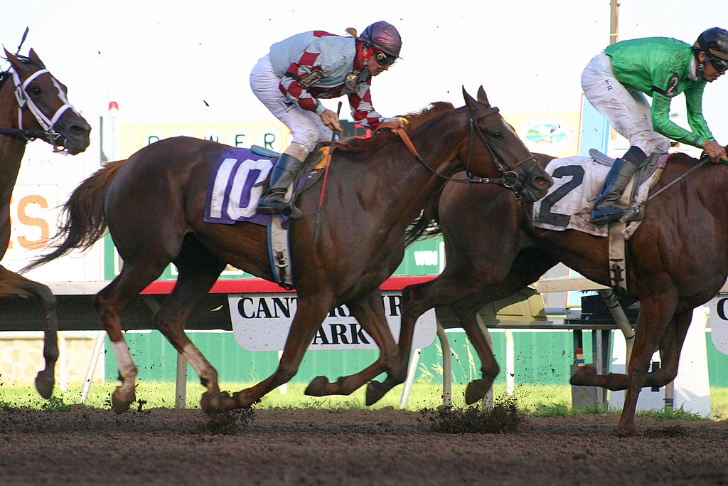 Horse race. Canterbury Downs in Shakopee, Minnesota. Canterbury Park.